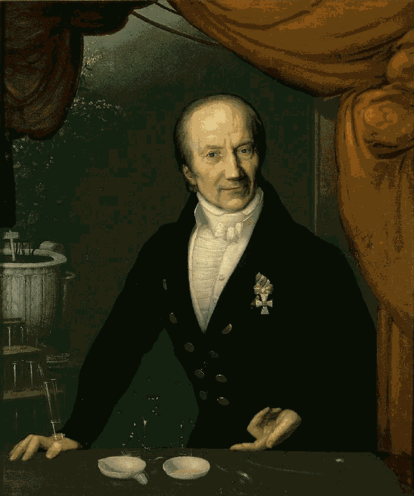 Painting of Johann Bartholomaeus Trommsdorff